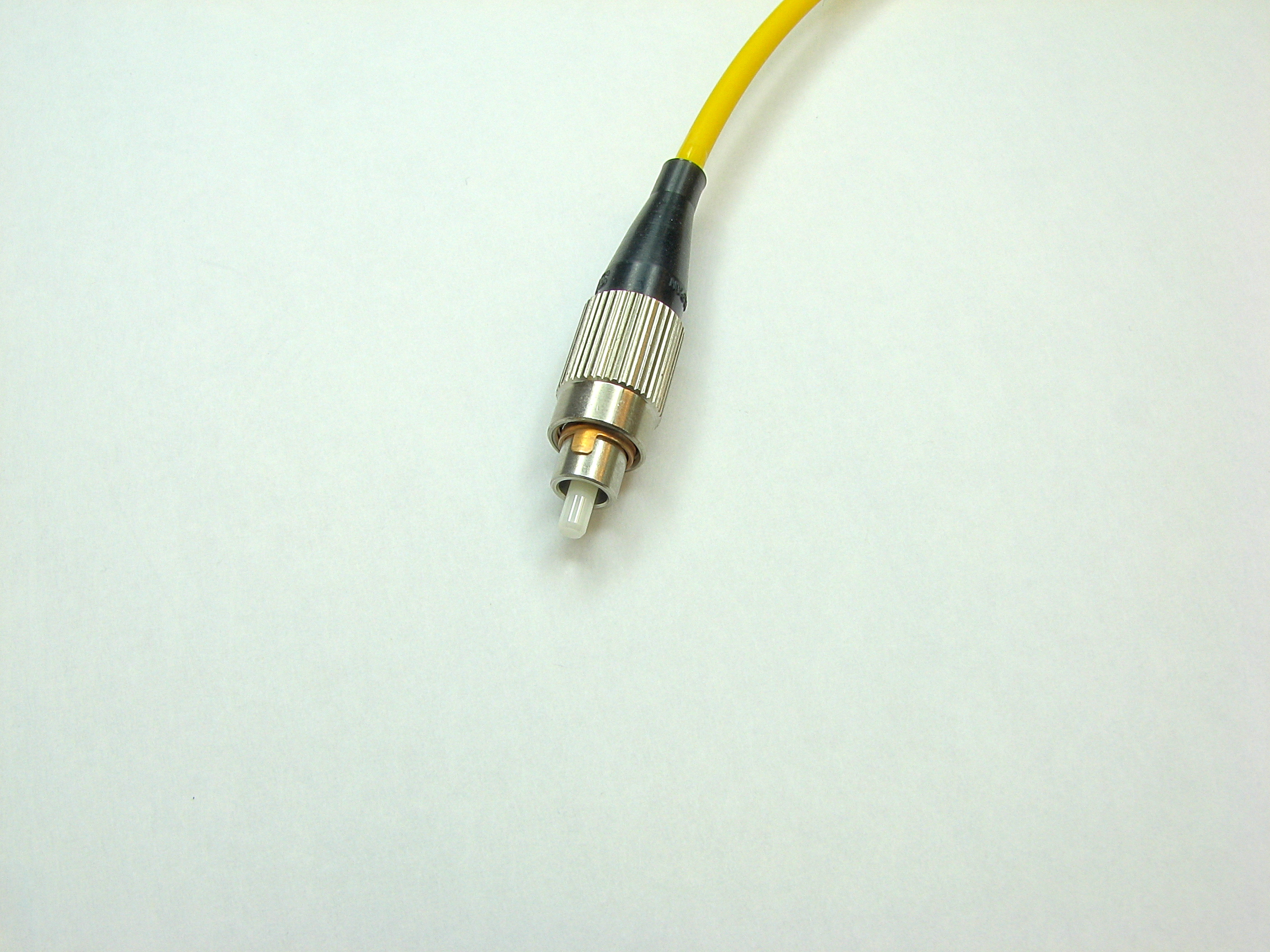 FC optical fiber connector.